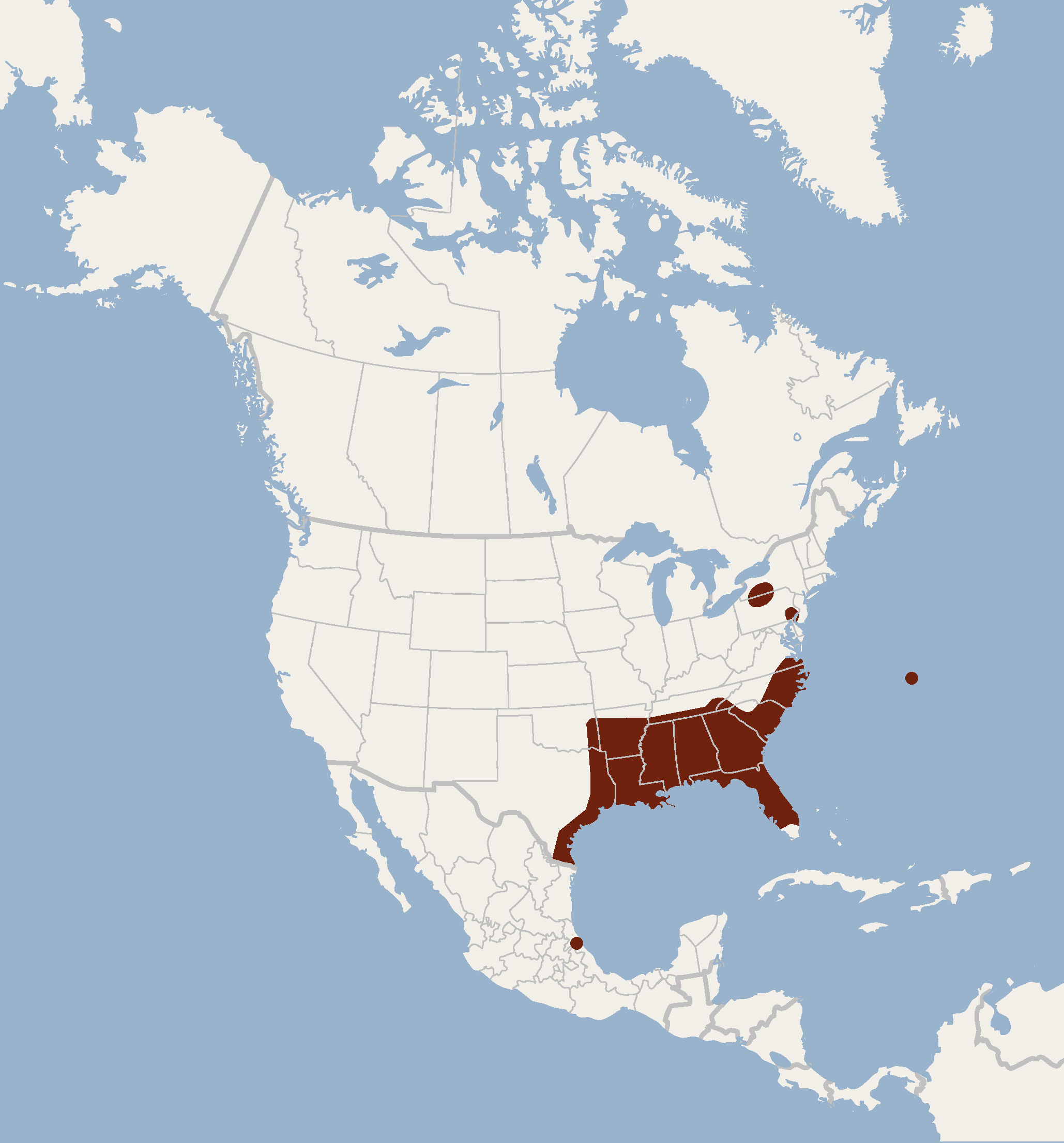 According to Wilkins, 1987 and Kays & Wilson, 2009